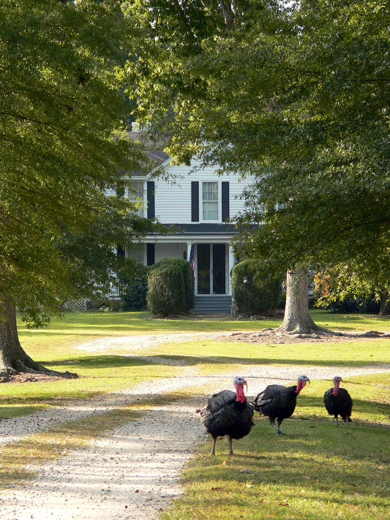 A flock of wild turkeys forages along the driveway leading to the Joseph Blake House, part of the Walnut Hill Historic District.